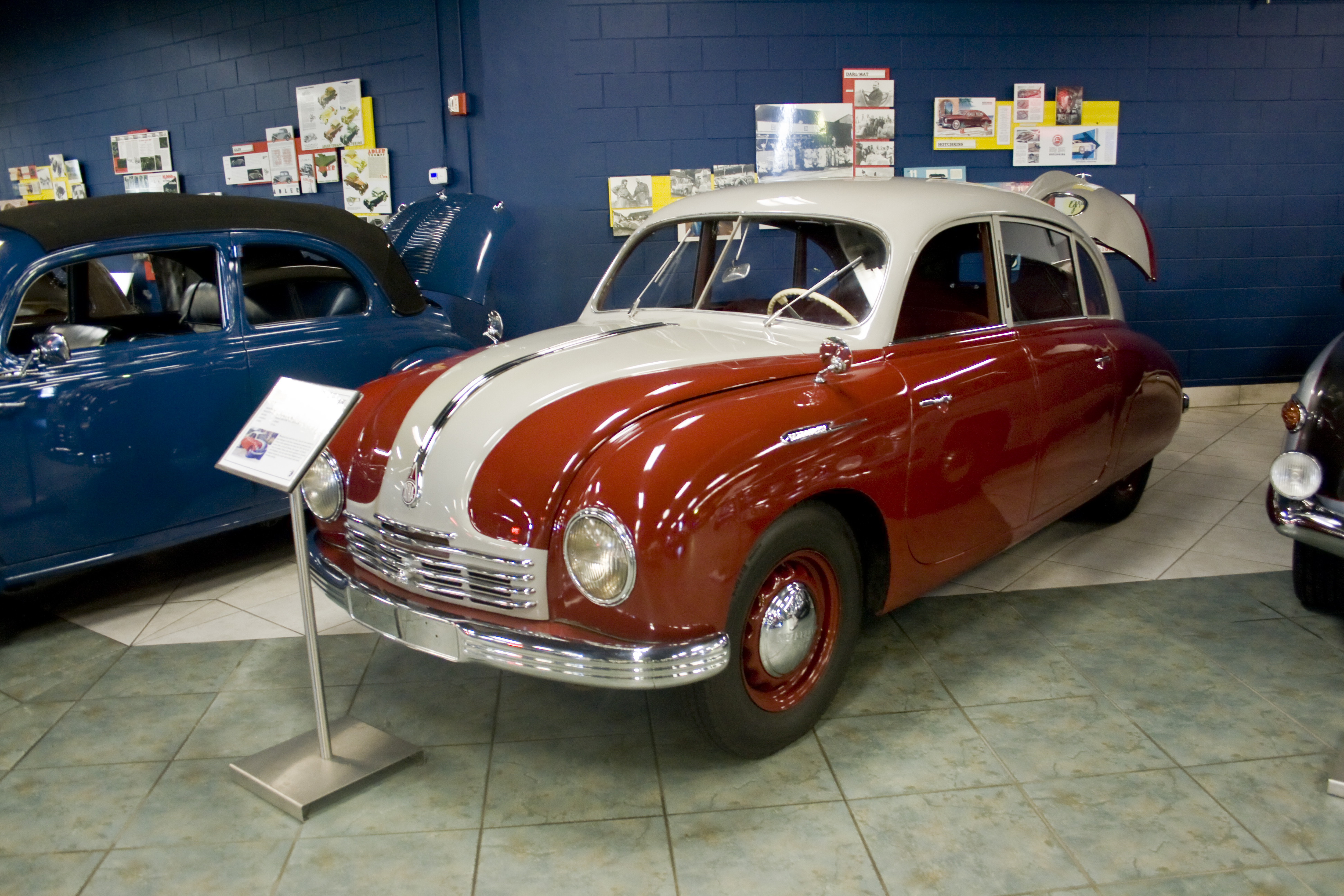 Tatraplan